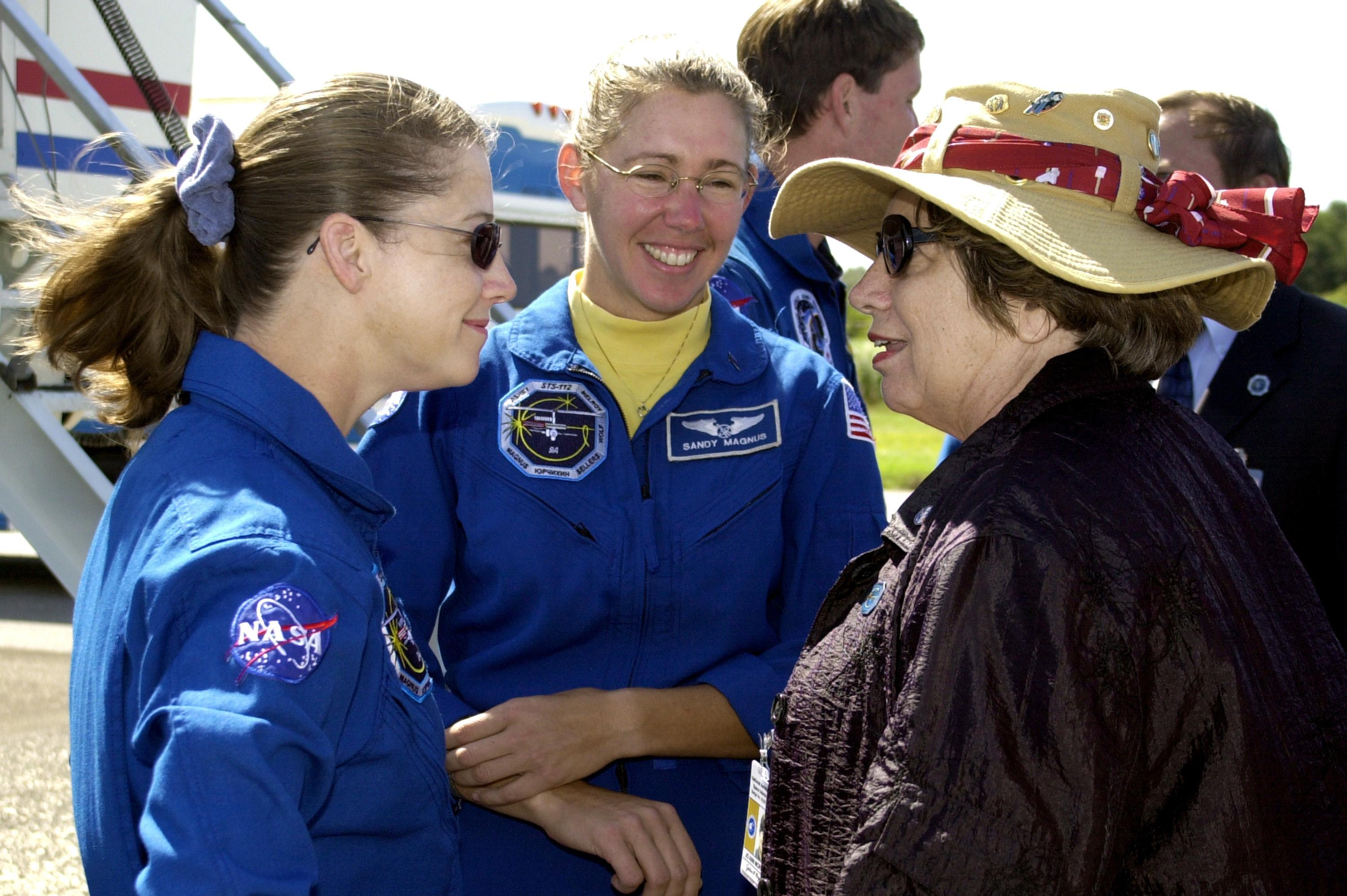 JoAnn H. Morgan, aerospace engineer and former Director of External Relations and Business Development with NASA, at the Kennedy Space Center with STS-112 Pilot Pamela Melroy (left) and Mission Specialist Sandra Magnus (center), crew of Space Shuttle Atlantis, after their landing at KSC.